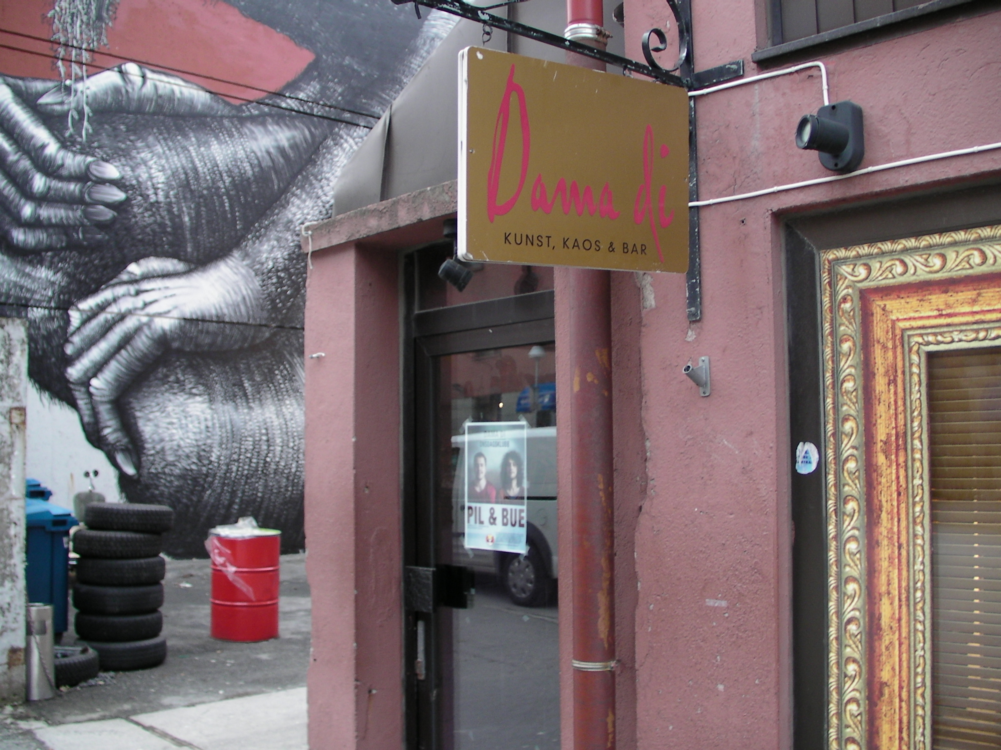 Dami Di Bodø